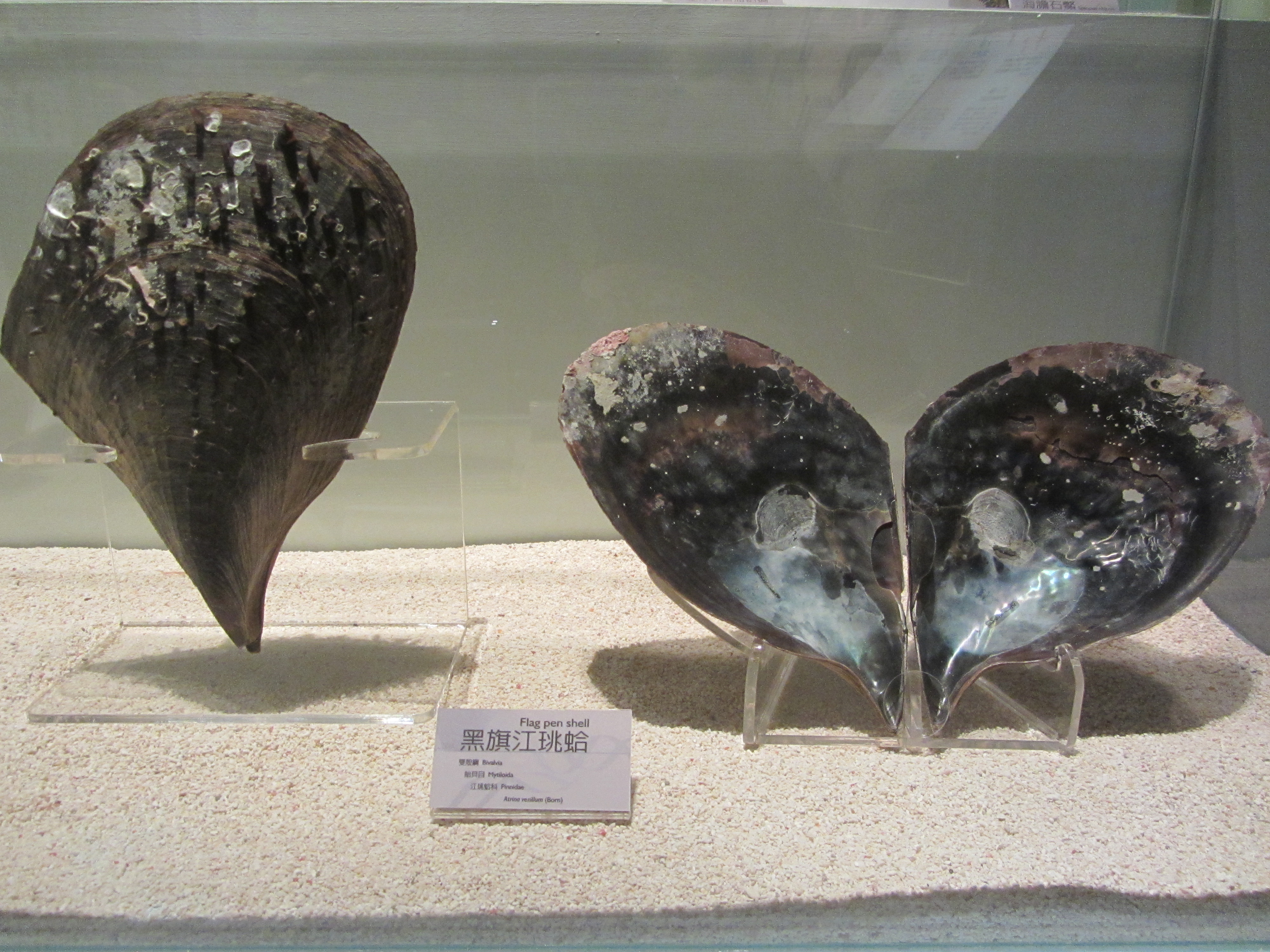 Specimen of Atrina vexillum